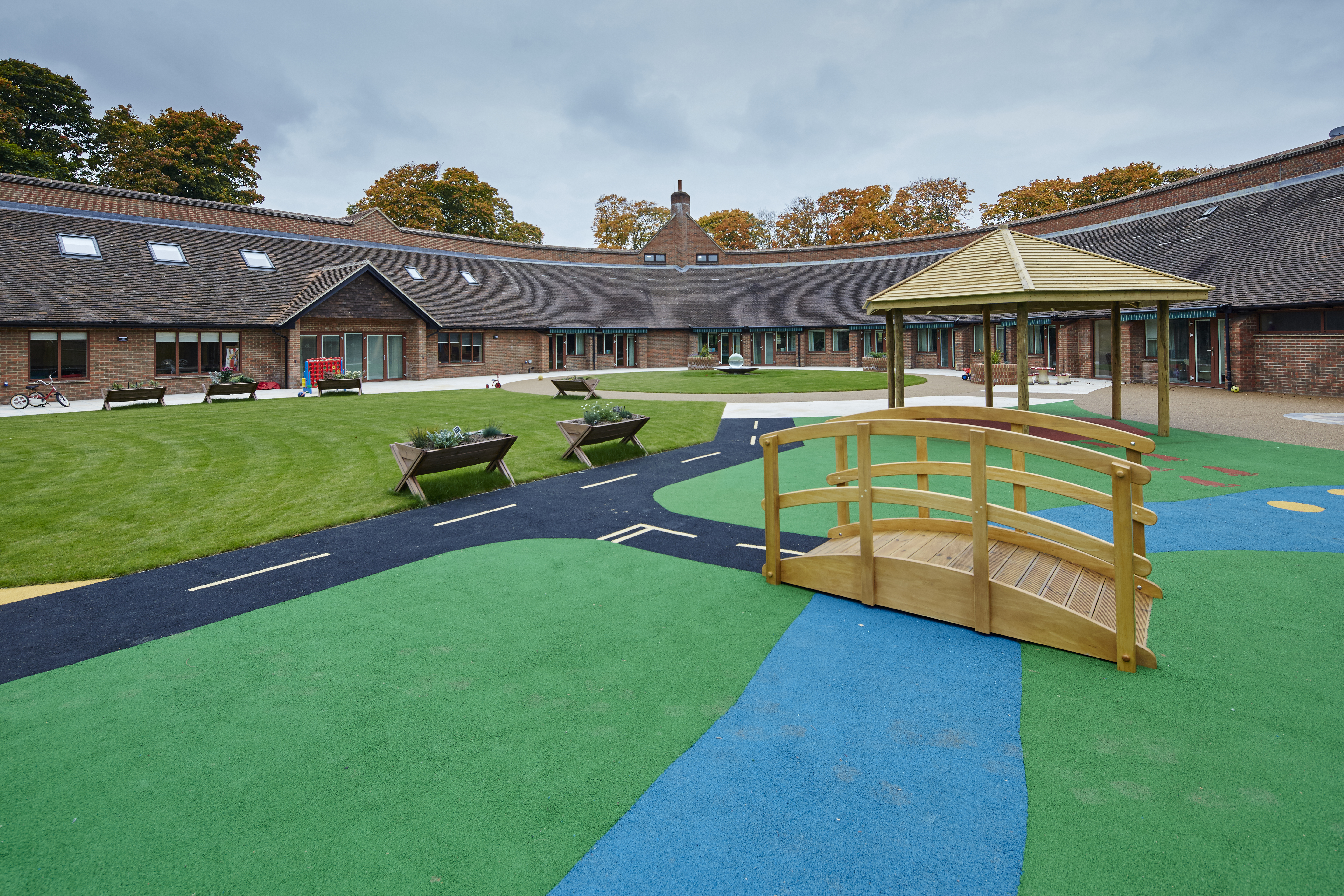 View of Naomi House children's hospice from the rear gardens